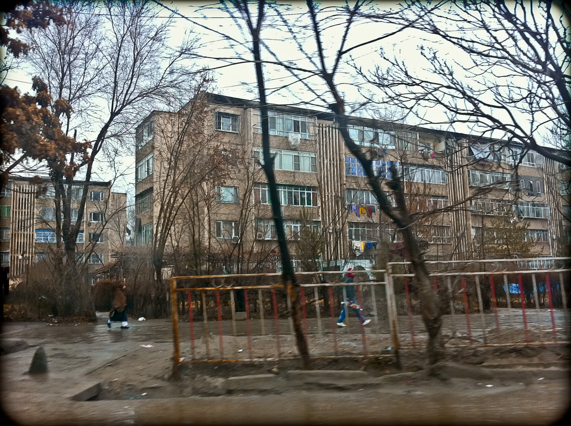 which means micro neighborhood in Russian, is comprised of old soviet buildings much like the one I grew up in. Ironically, this is considered the modern shishi part of town and people are proud to live here.